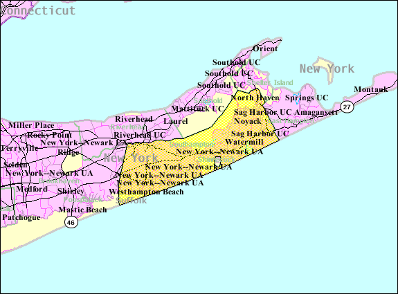 U.S. Census 2000 reference map for Southampton